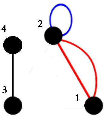 A illustration of a multigraph to be used in the article Multigraph